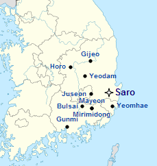 Map of the states of the Jinhan confederacy